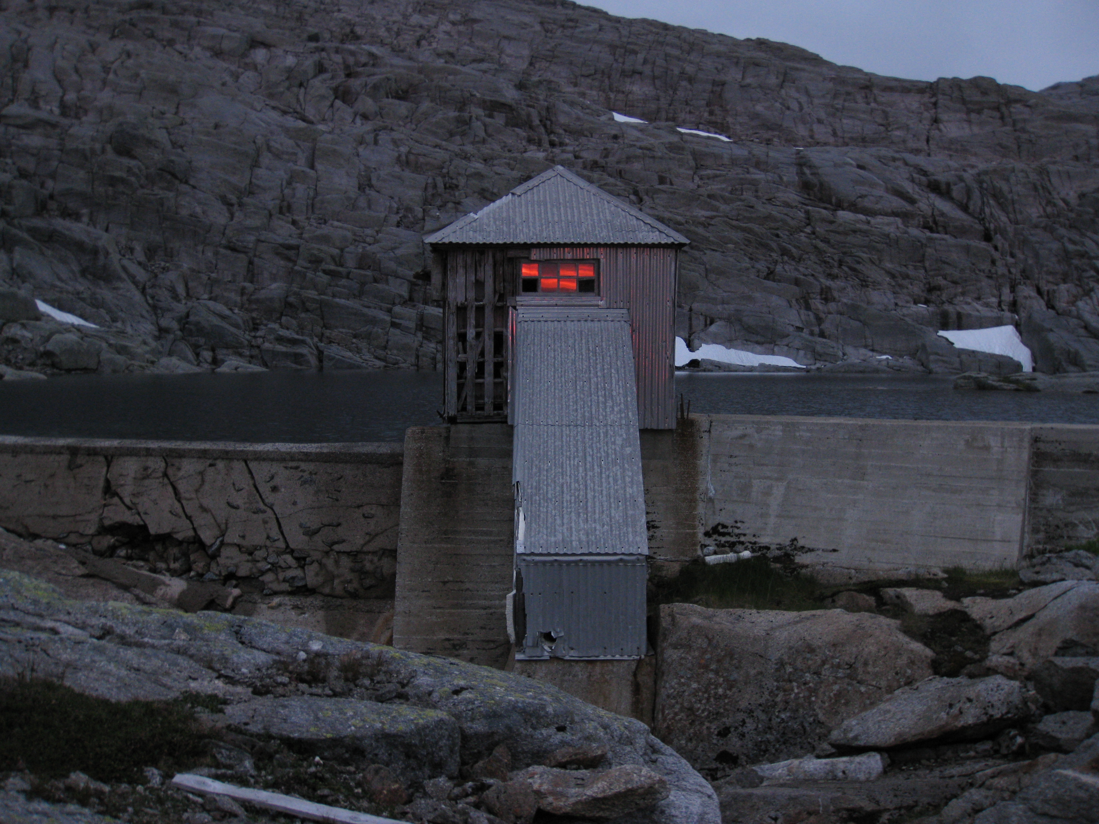 The Breimovatnet dam in the Seven sisters mountain range in Northern Norway.